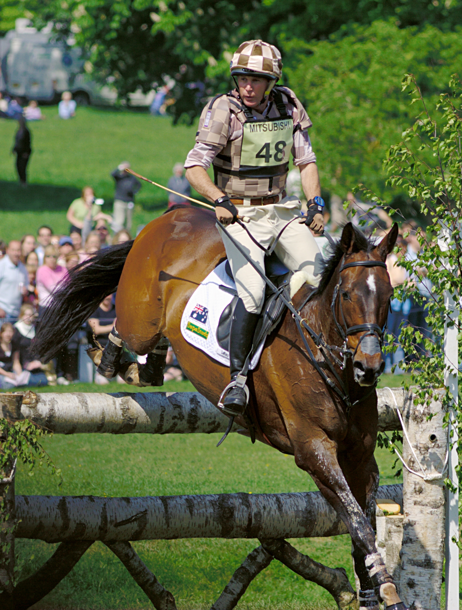 Matt Ryan during the cross-country phase of Badminton Horse Trials 2007.